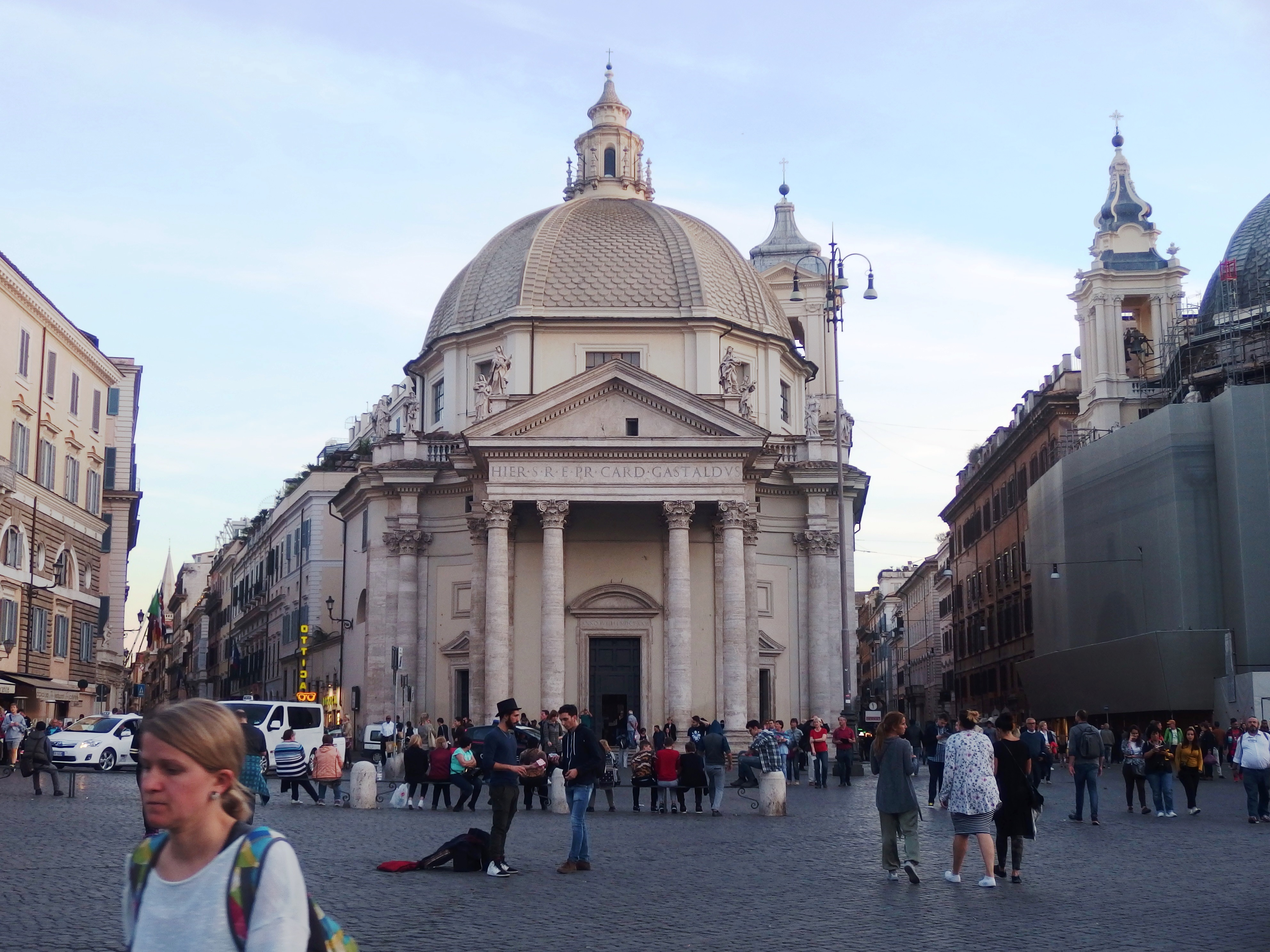 Rome, Italy.